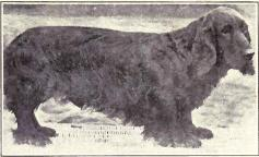 Field Spaniel from 1915